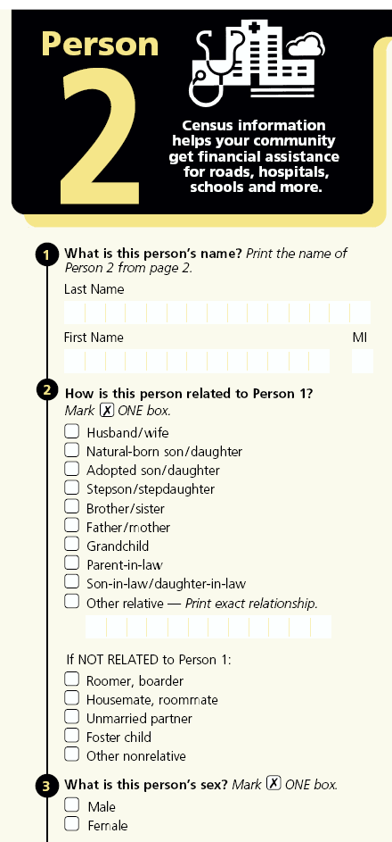 Screenshot of 2000 United States Census Long Form Questionnaire showing the first three questions relating to Person 2 in a household. The questions are Name, Relationship to Person 1 and Sex.